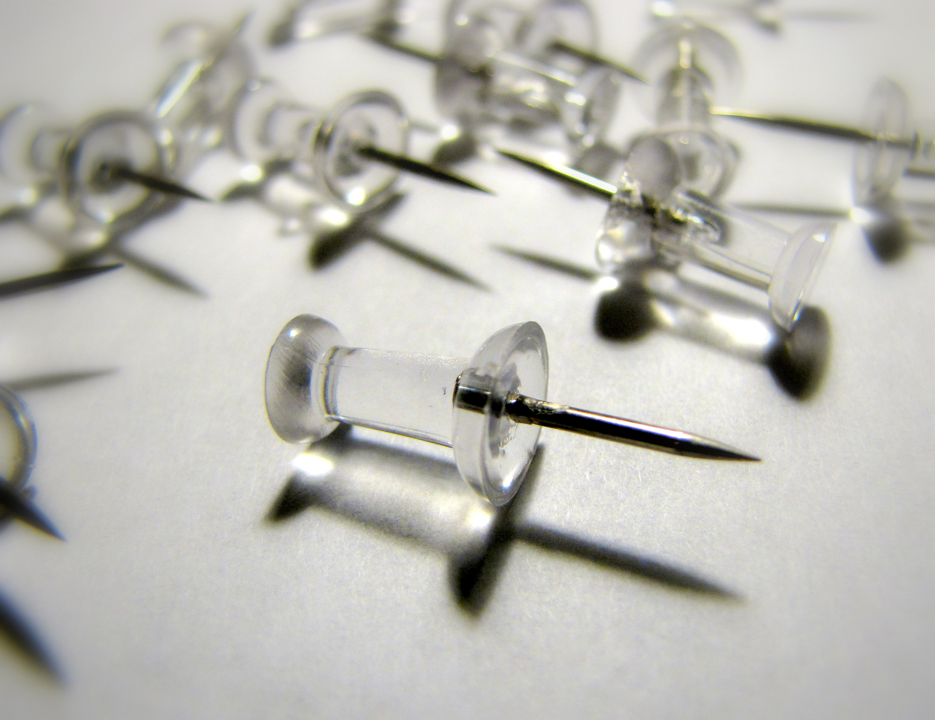 Transparent pushpins (sometimes called map pins)